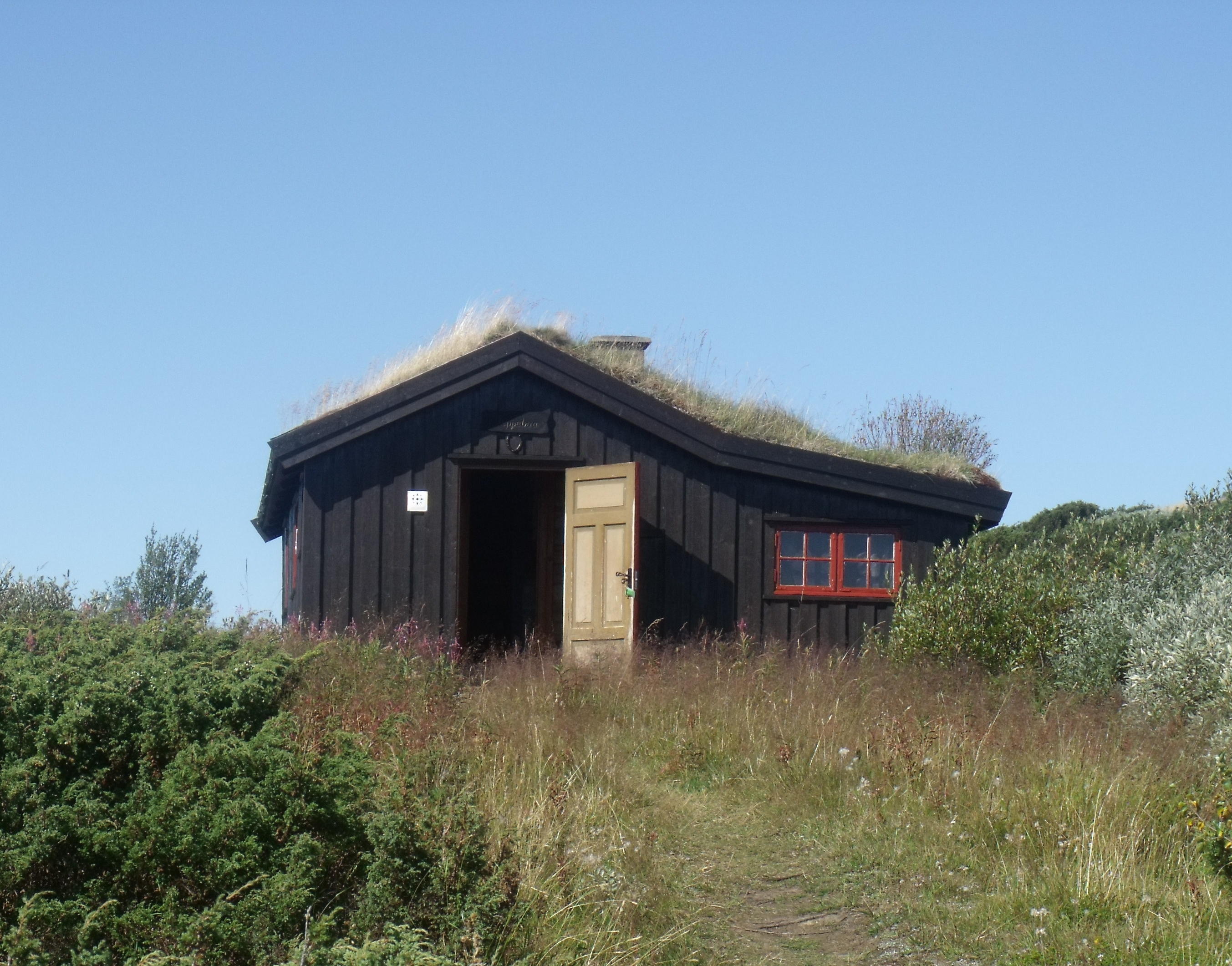 Leppehytta in summertime, seen from below